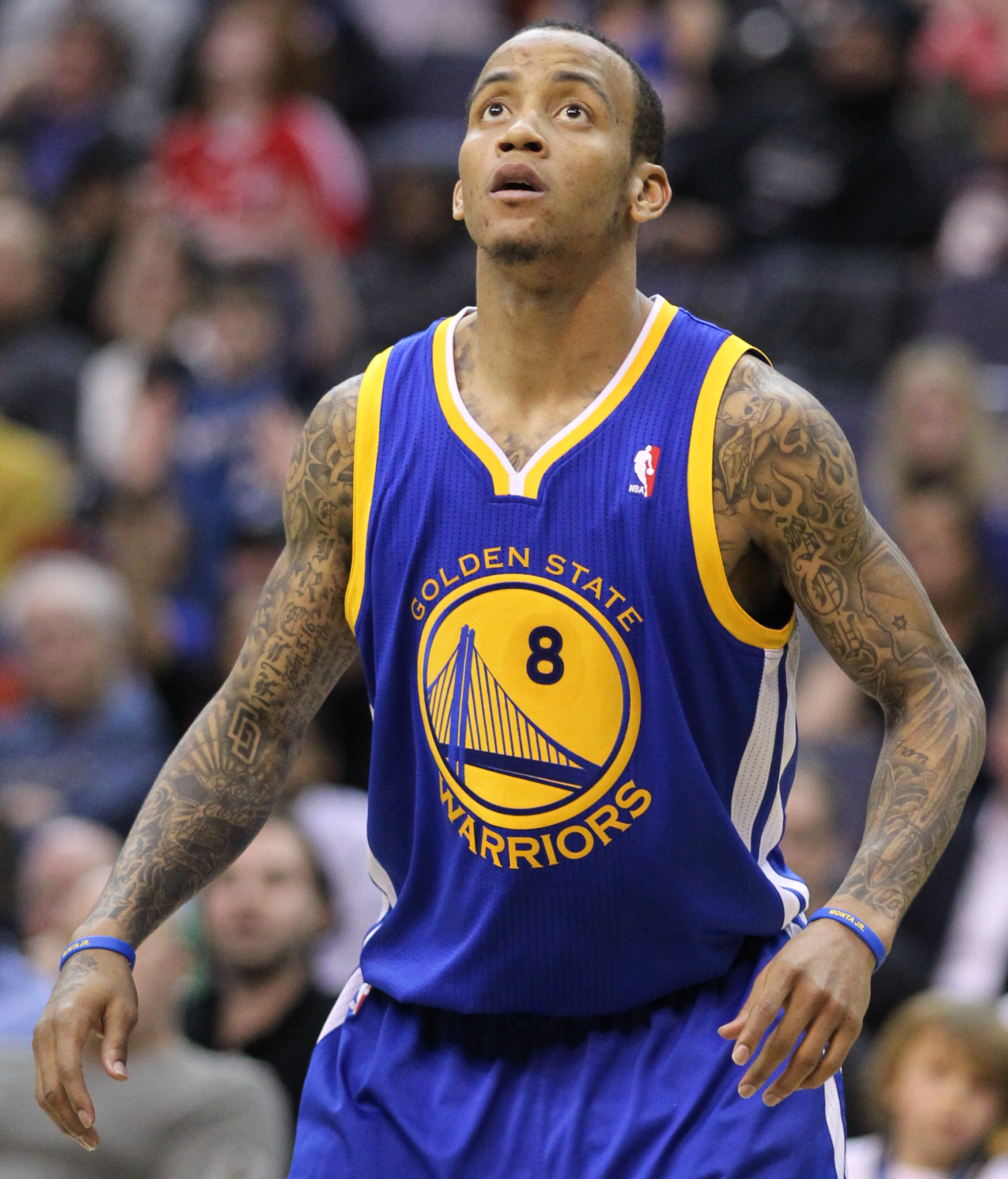 Wizards v/s Warriors 03/02/11